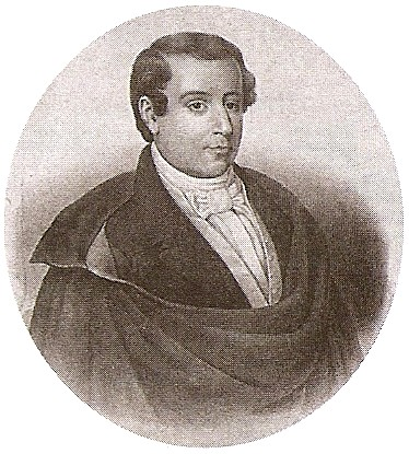 Mariano Moreno, member of the Primera Junta of Buenos Aires in 1810